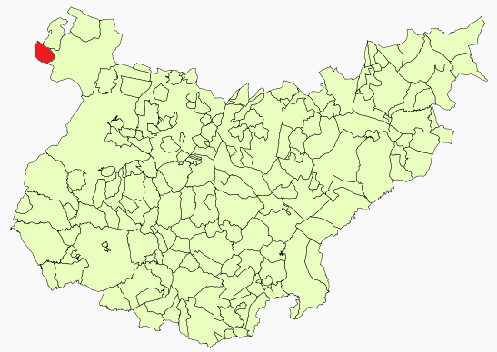 La Codosera